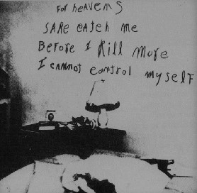 Crime scene photograph depicting graffiti left on wall of apartment of victim Frances Brown.